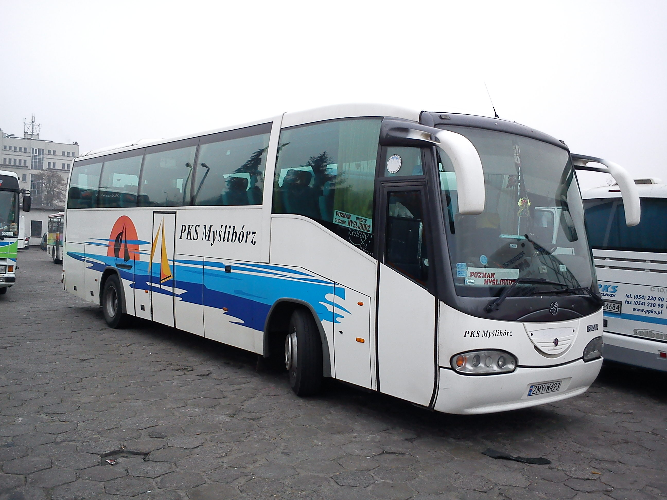 Irizar New Century bus (reg. ZMY W493) with Scania chasis in Poznań bus station, Poland. PKS Myślibórz operator.